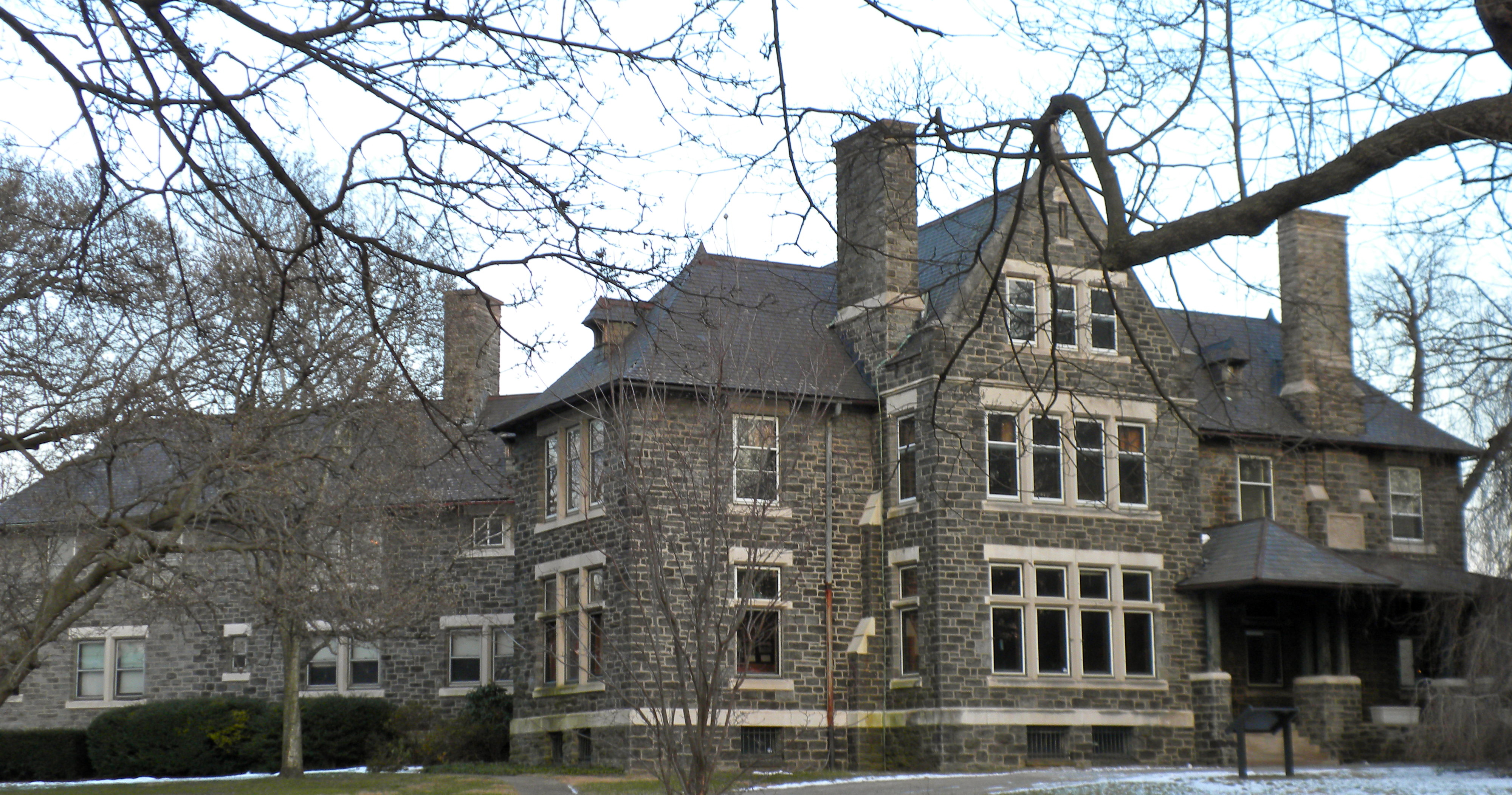 Graystone, aka Abram Huston House and Carriage House 53 South 1st Avenue, in Coatesville, PA. In the Lukens Historic District and on its own on NRHP 39°58′54″N 75°49′21″W